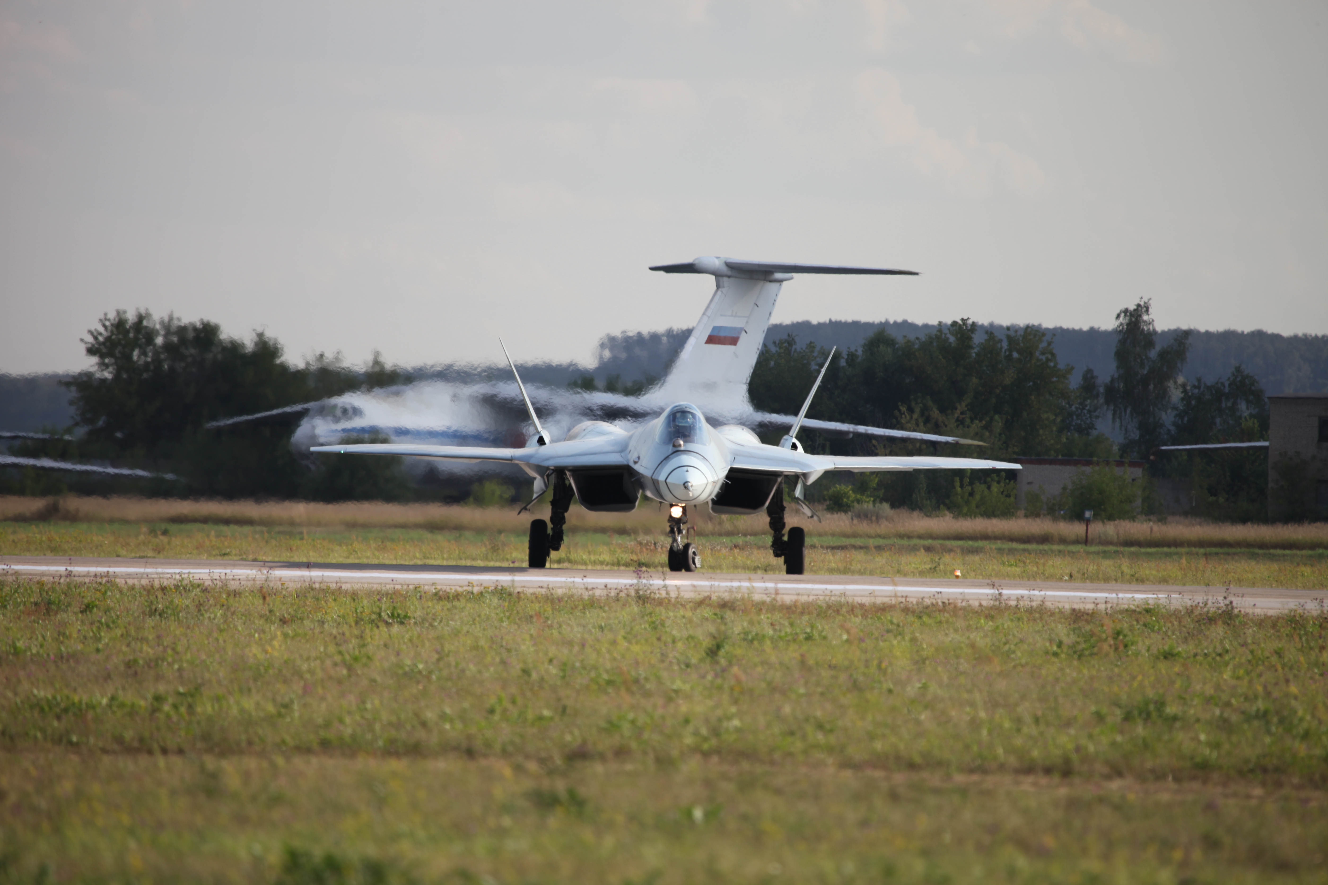 100th Anniversary of the Russian Air Force - the aircraft is a Sukhoi T-50-2 stealth multirole fighter.